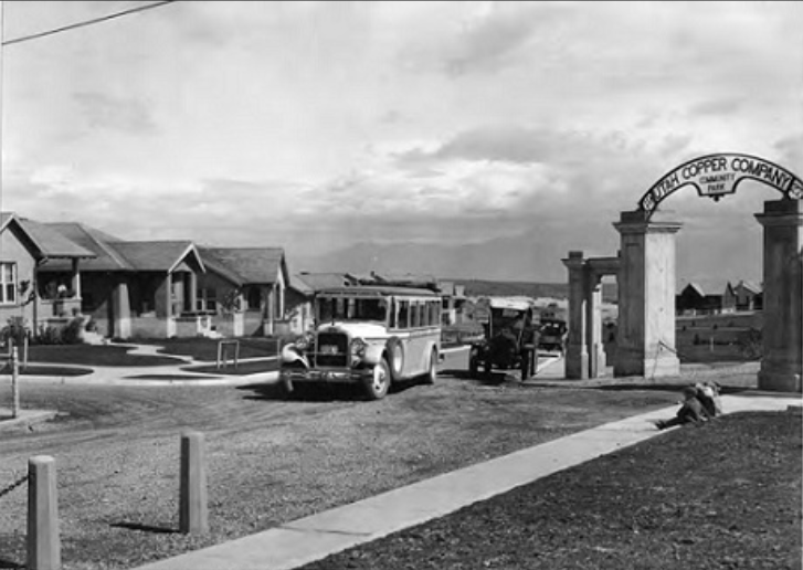 old picture of Copperton, Utah